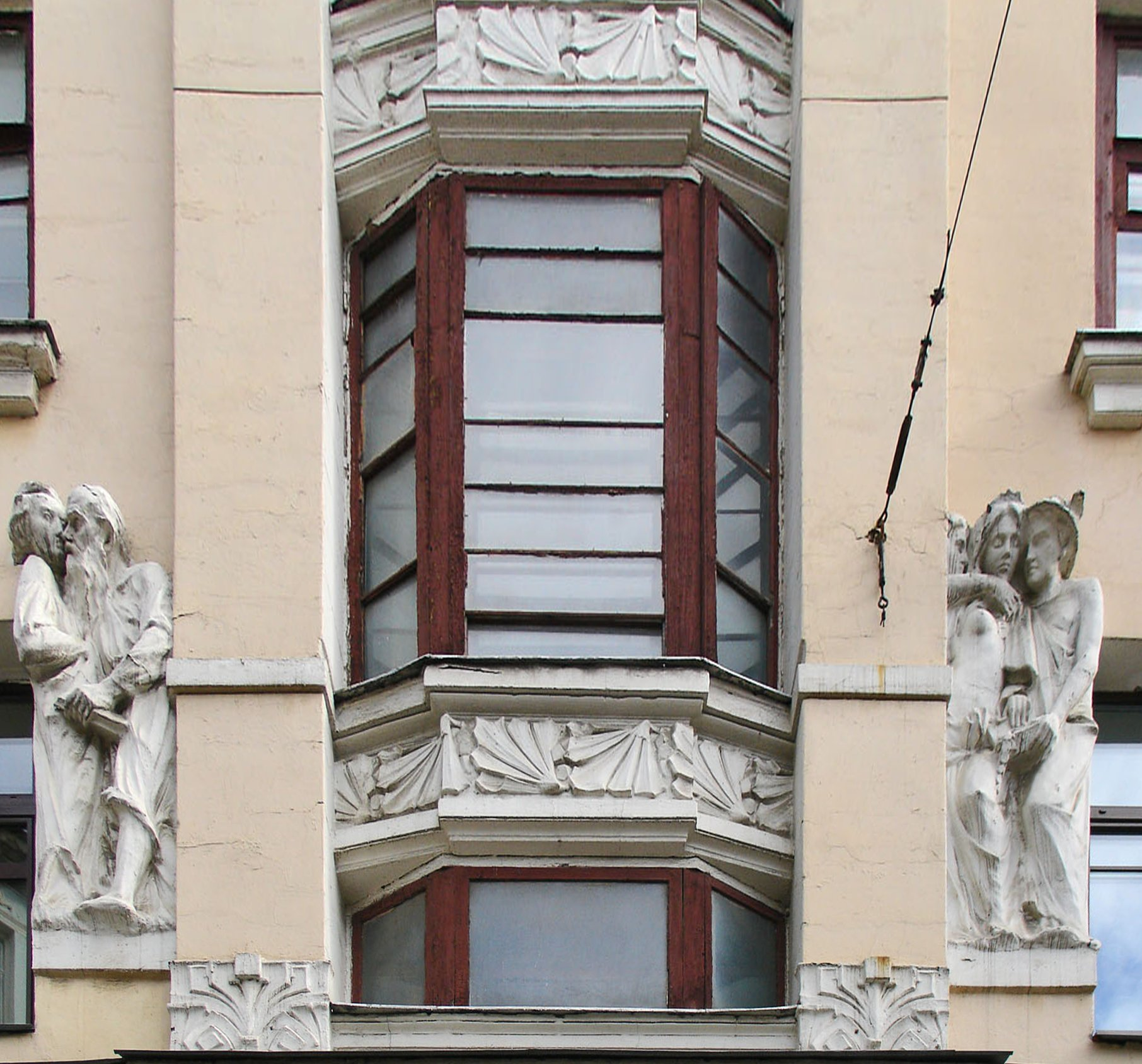 4, Plotnikov Lane, Moscow. 1907 erotic art. Architect: Nikolay Zherikhov, sculptor unknown.